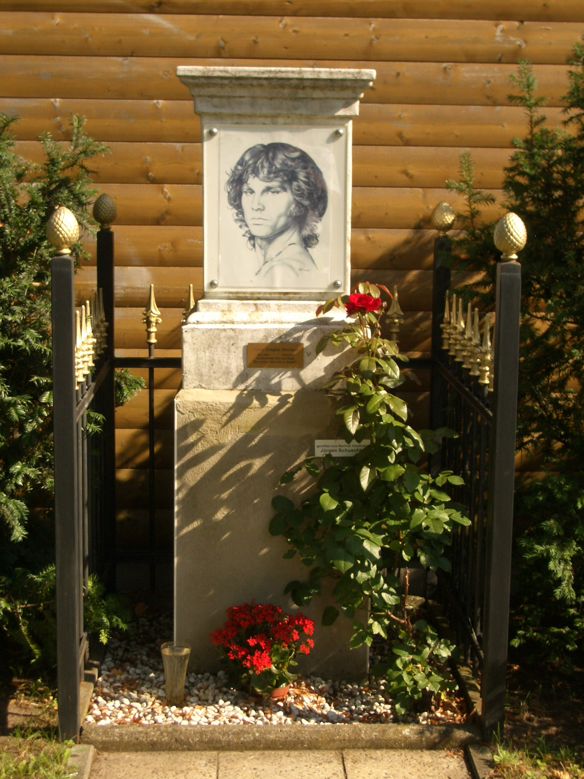 Jim Morrison Memorial in Berlin-Baumschulenweg. The Memorial has been set up among other by a Berlin merchant in 2003.